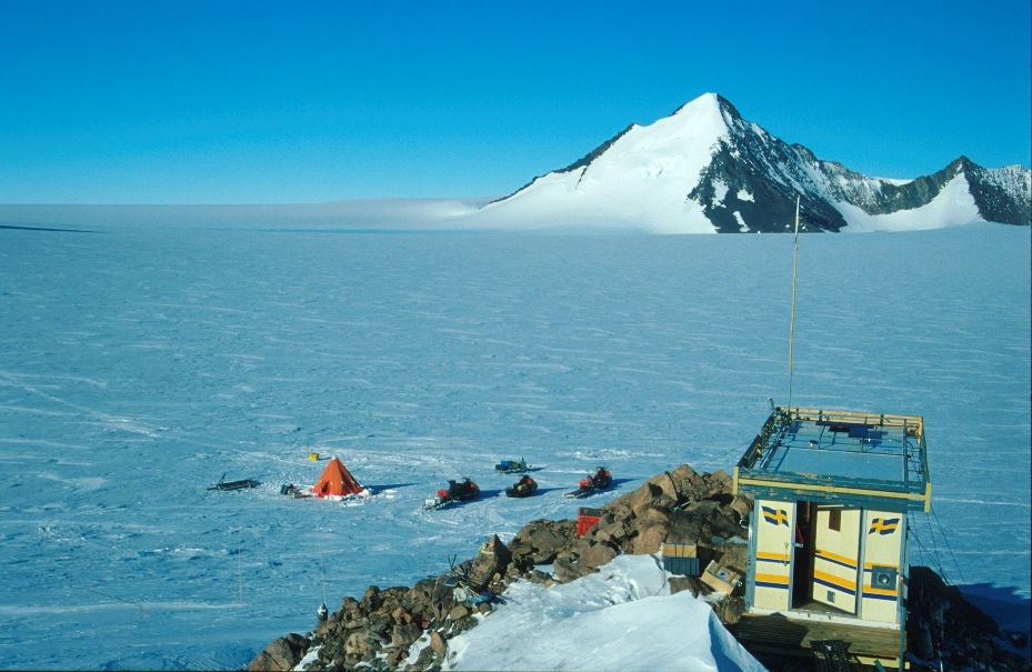 The Swedish summer station SVEA in the Scharffenbergbotnen valley. View towards Mt. Gerhardsennuten in the Northeast.